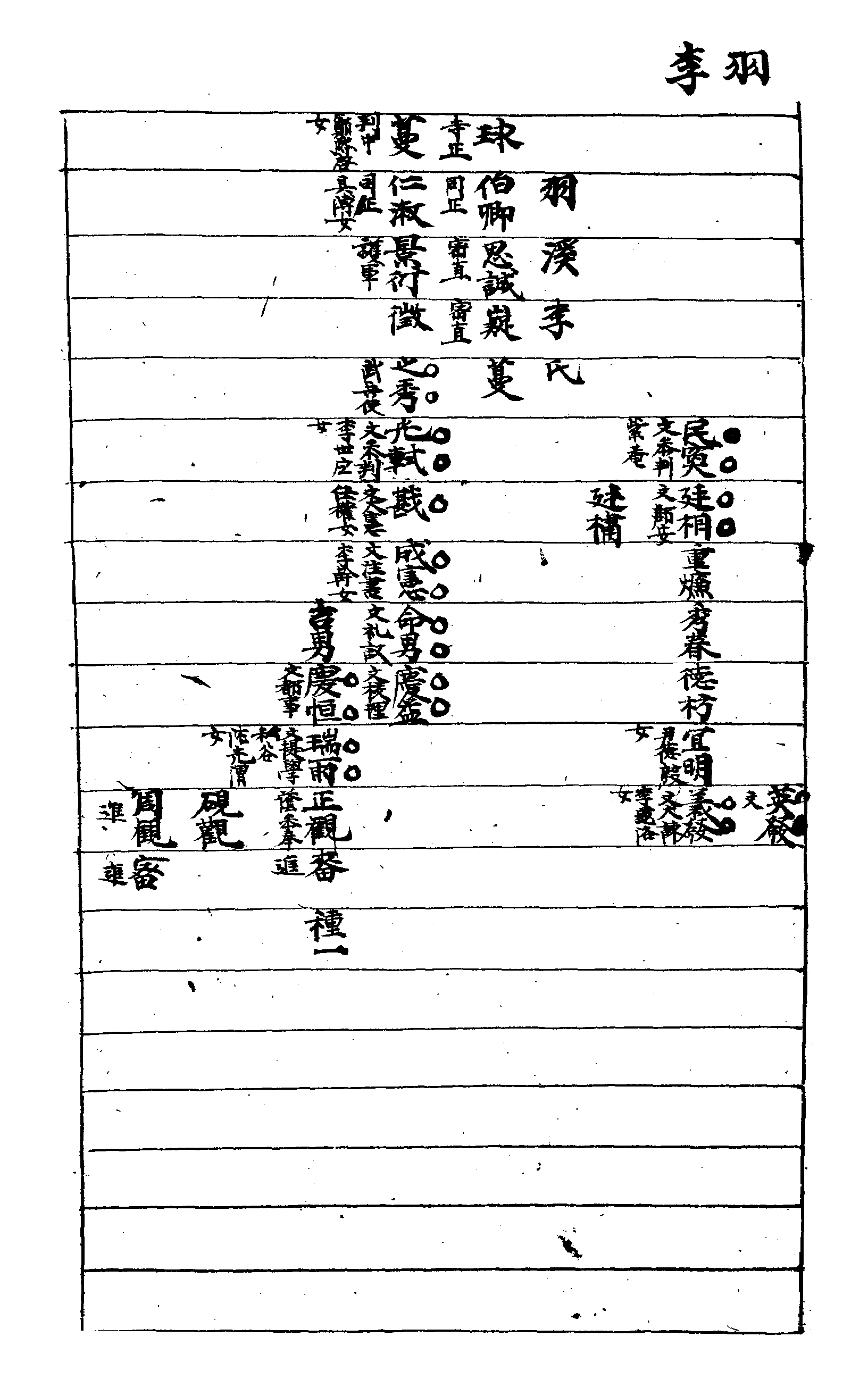 the one family tree of South man party members